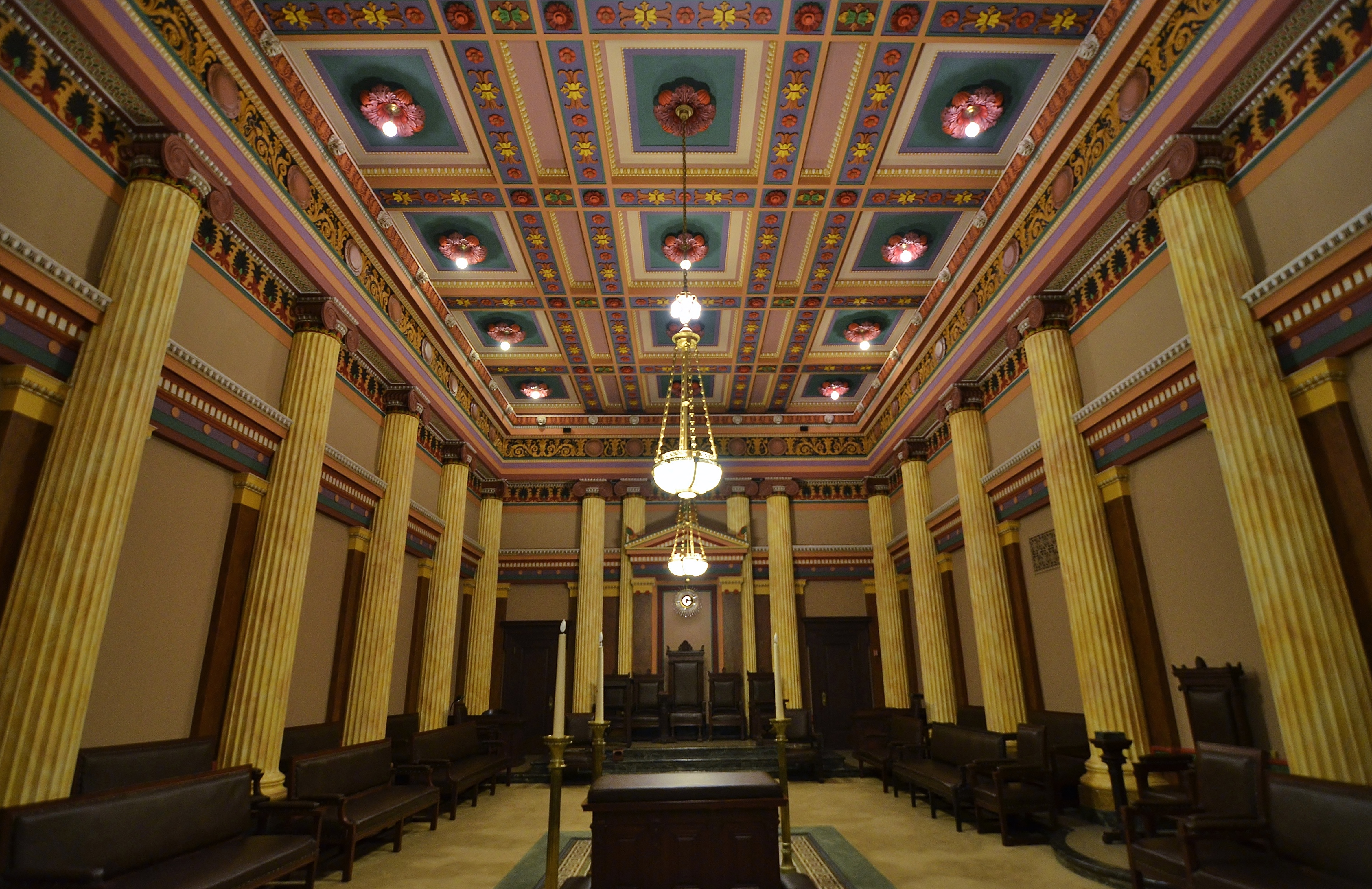 The beautiful rooms and details inside the Grand Lodge of Free Accepted Masons of the State of New York. Site: Masonic Hall